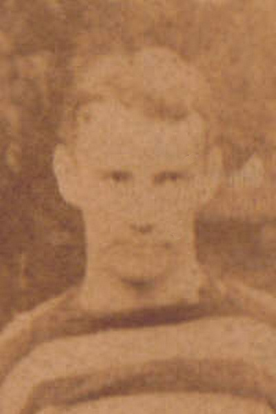 Reginald Innes Pocock F.R.S. (4 March 1863 – 9 August 1947) was a British zoologist.